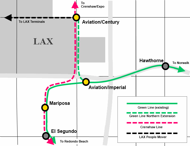 Diagram of the future junction between the Metro Crenshaw Line and the Metro Green Line in the Los Angeles Metro System.